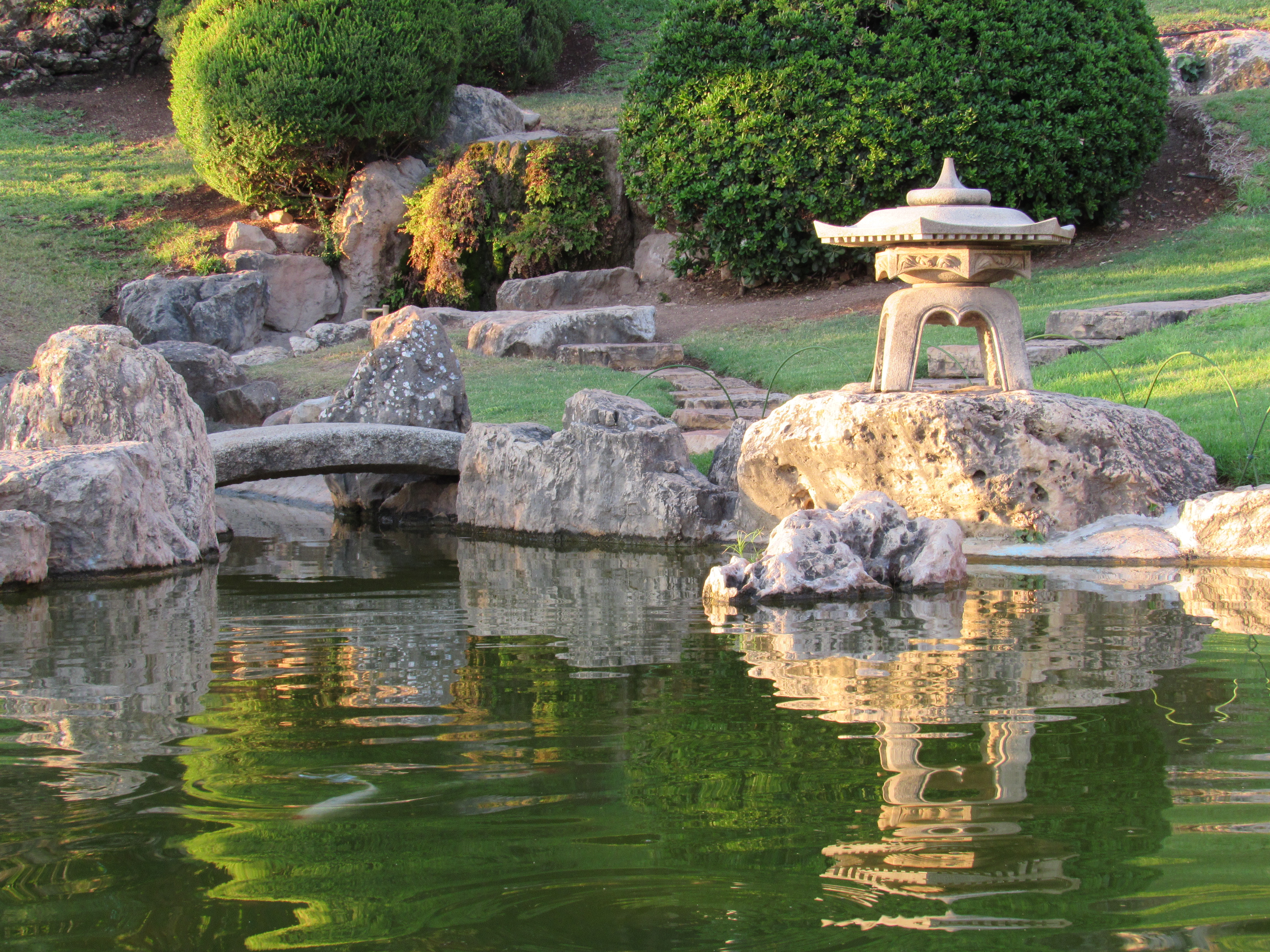 japanese garden kibutz heftzi-ba